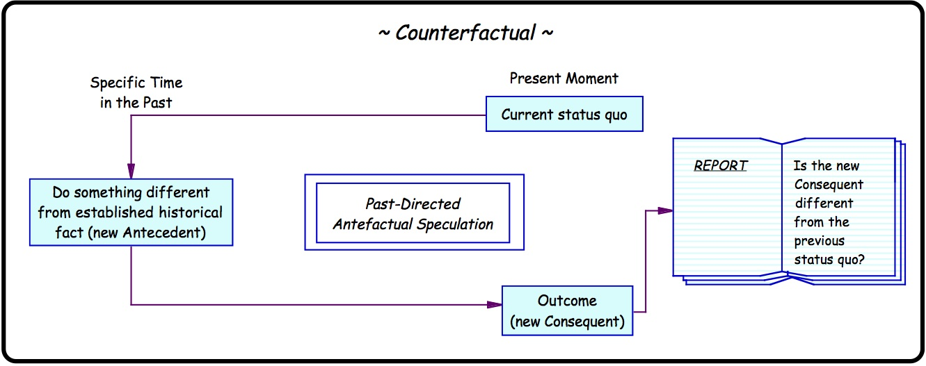 Taken from page 144 of Yeates, L.B., Thought Experimentation: A Cognitive Approach, Graduate Diploma in Arts (By Research) dissertation, University of New South Wales, 2004.